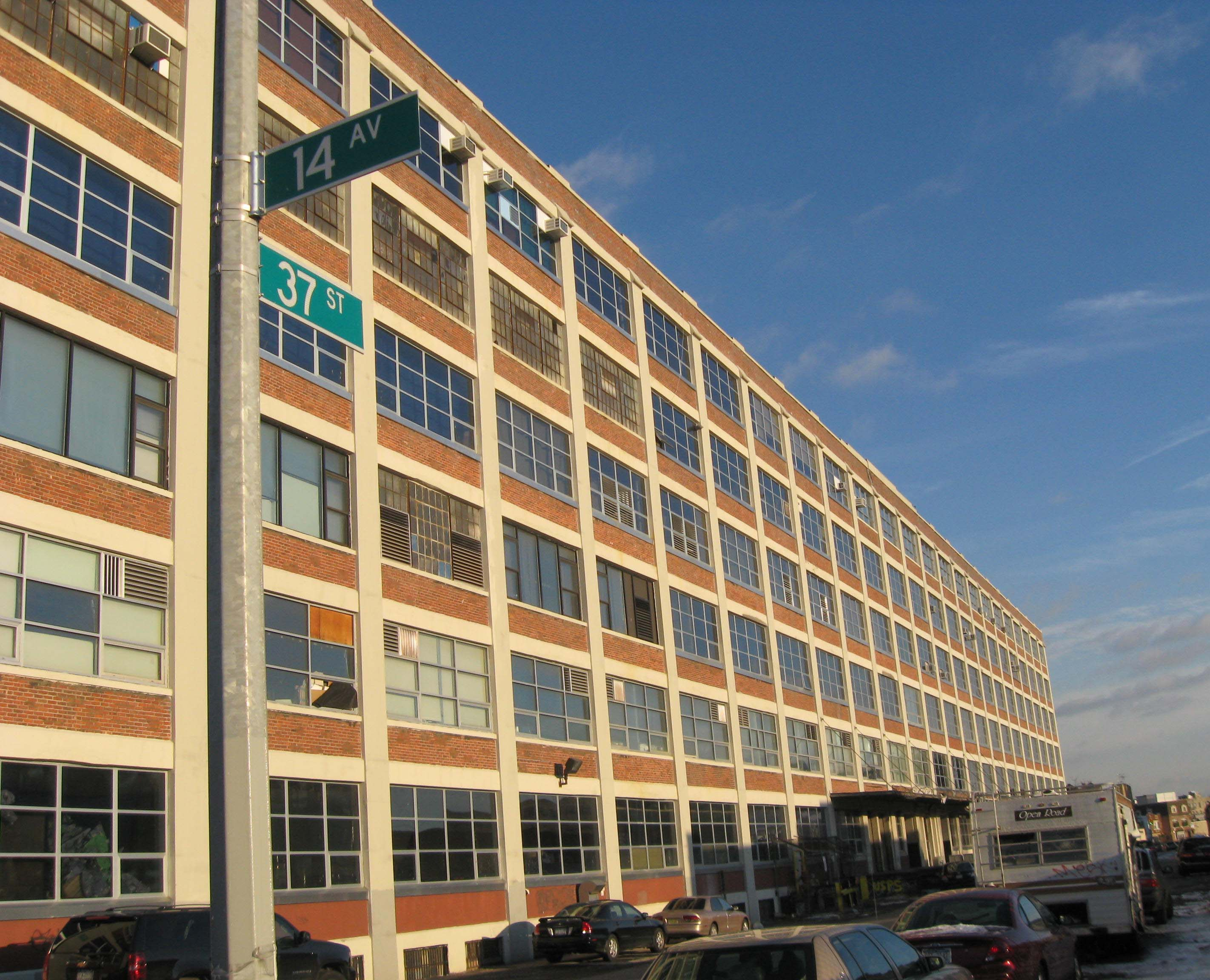 Looking east along 37th Street Brooklyn at a factory building formerly served by the Culver Line, now including offices. See also File:BrooklynFactory.JPG